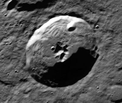 Scoresby lunar crater - Clementine image